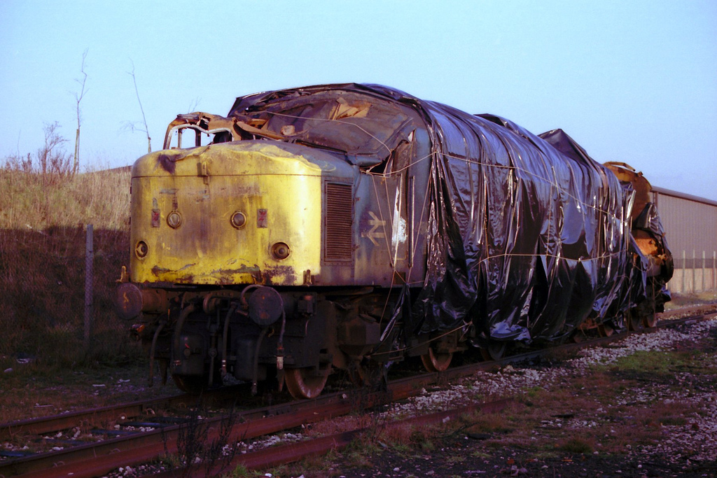 British Railways Type 4 1Co-Co1 class 45/1 diesel-electric locomotive number 45147 stands stored at the end of the Patricroft ROF line by Patricroft station awaiting cutting up. Wednesday 26th December 1984 The locomotive was involved in the Eccles train crash on 4th December 1984. It was moved to Patricroft and about two weeks after the accident was officially classed as stored. It was considered to badly damaged to be moved and was cut up on site by Vic Berry staff in March 1985 Ref no 57/05158